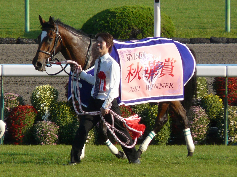 Aventura20111016(2)